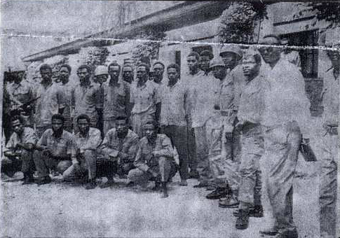 These Congolese were arrested at the same time as the Belgian paratroopers who crossed into and attacked the Free Republic of the Congo in Bukavu from Ruanda-Burundi. They were all interned in Stanleyville Central Prison.